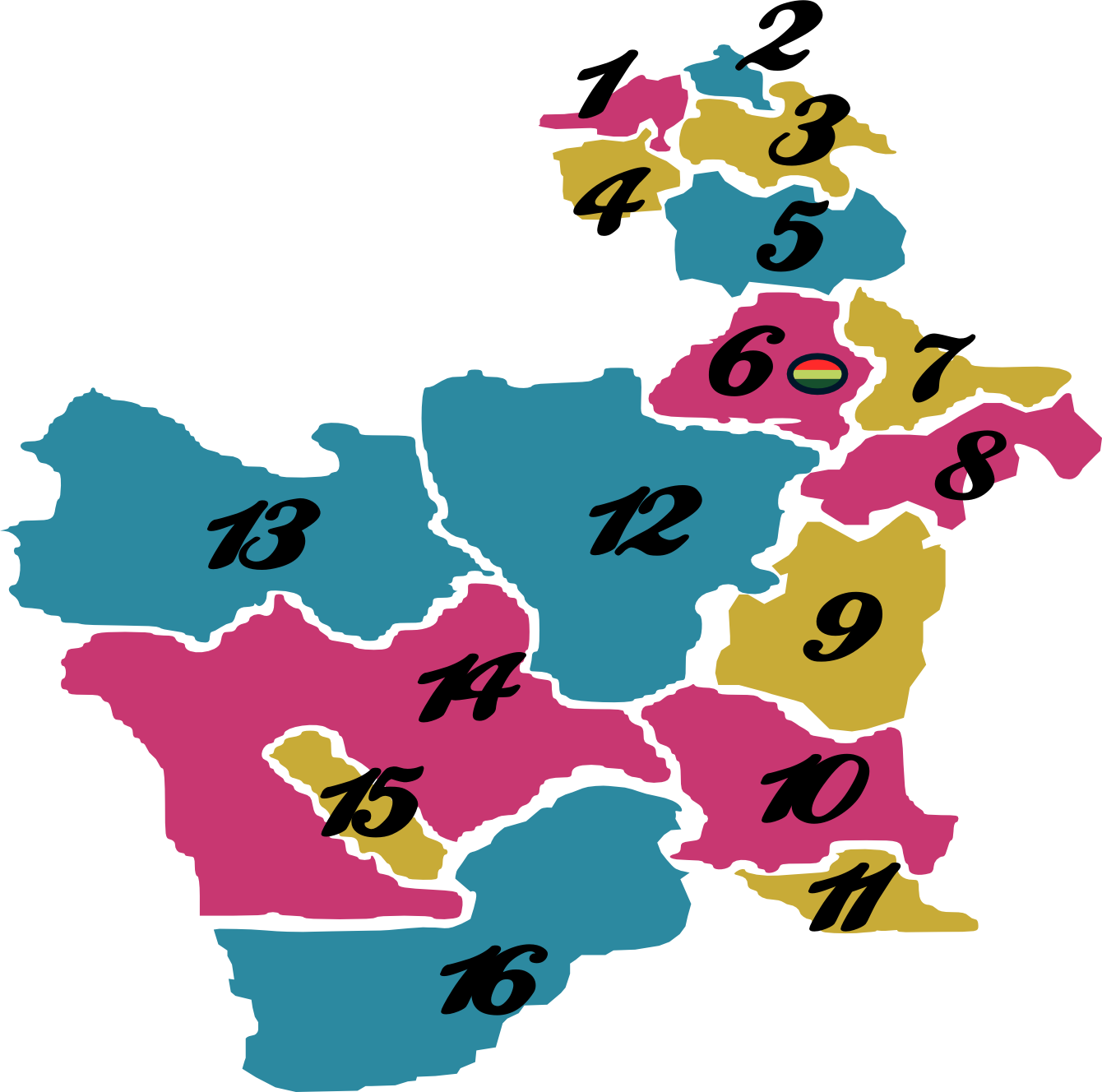 departement map